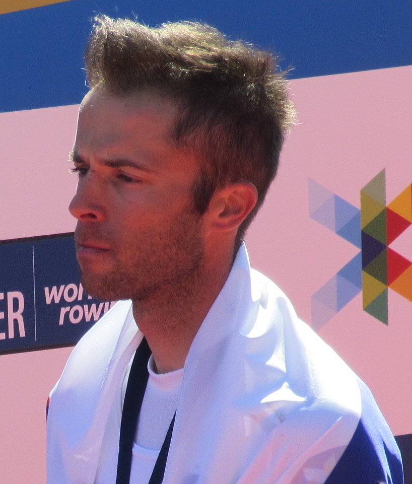 Rajko Hrvat at the 2016 European Rowing Championships in Brandenburg an der Havel, Germany